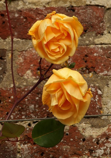 Climbing Lady Hillingdon, Upton House gardens. The adjacent label read: "ROSE CLIMBING LADY HILLINGDON" but it was clearly climbing the brick retaining wall. This is on the terrace immediately above the kitchen garden. "The blooms are particularly elegant in autumn and have a rich tea scent ... the namesake of this rose, Lady Hillingdon, is chiefly remembered for her remark, "When my husband lies on top of me, I close my eyes and think of England." ('Climbing roses of the world' by Charles Quest-Ritson). The attribution is by no means certain.